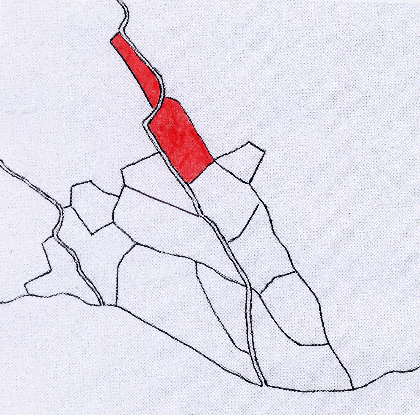 Truda microdistrict in Tsentralny City district of Sochi